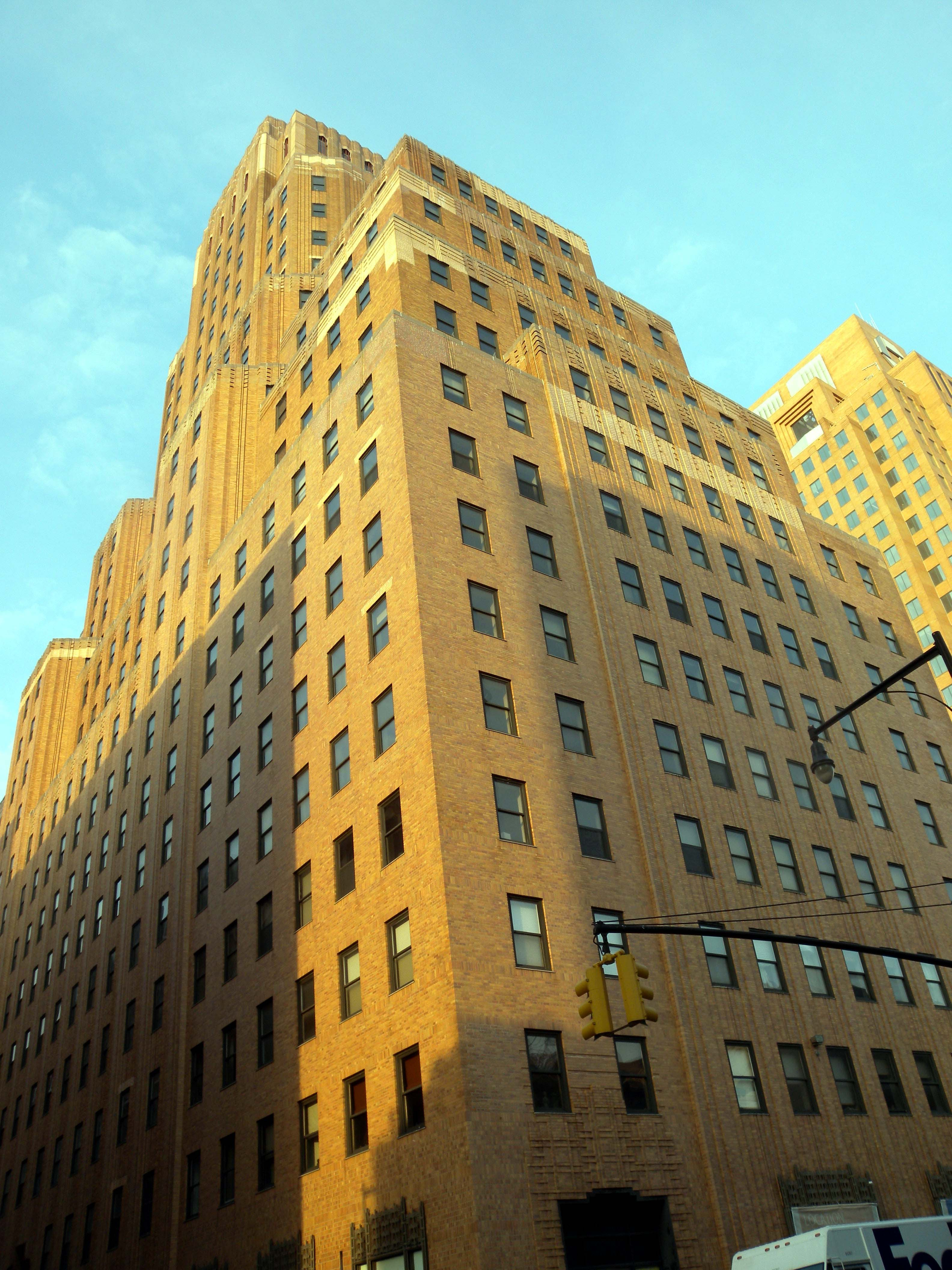 Looking northeast across Willoughby and 365 Bridge Streets at Long Island headquarters of New York Telephone Company on a sunny late afternoon, recently converted for residential use. NYCLPC designated 2004. See also File:LI HQ NYTel plaque jeh.JPG.